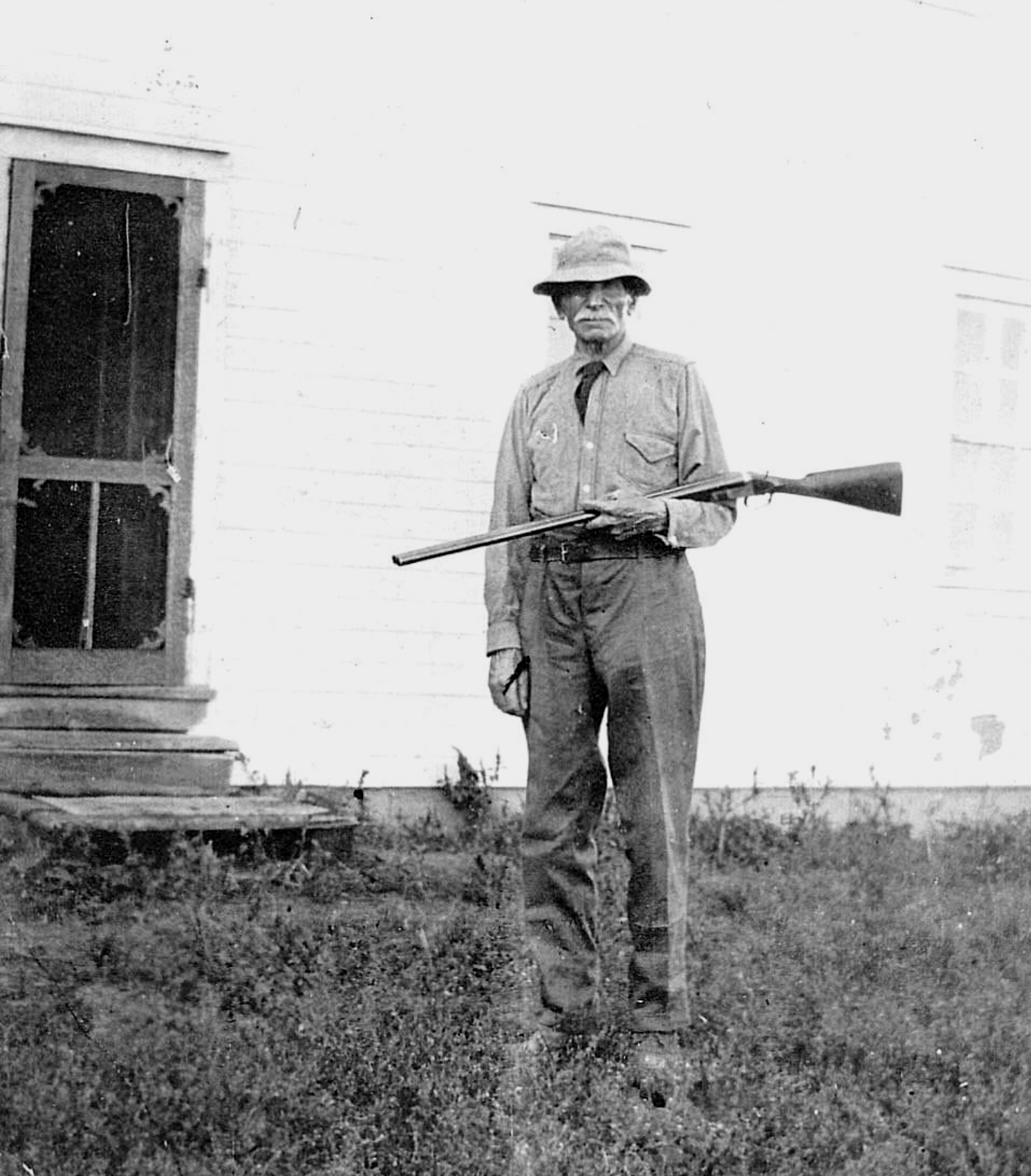 Colin Inkster paying with his duck hunting rifle at Bleak House circa 1890